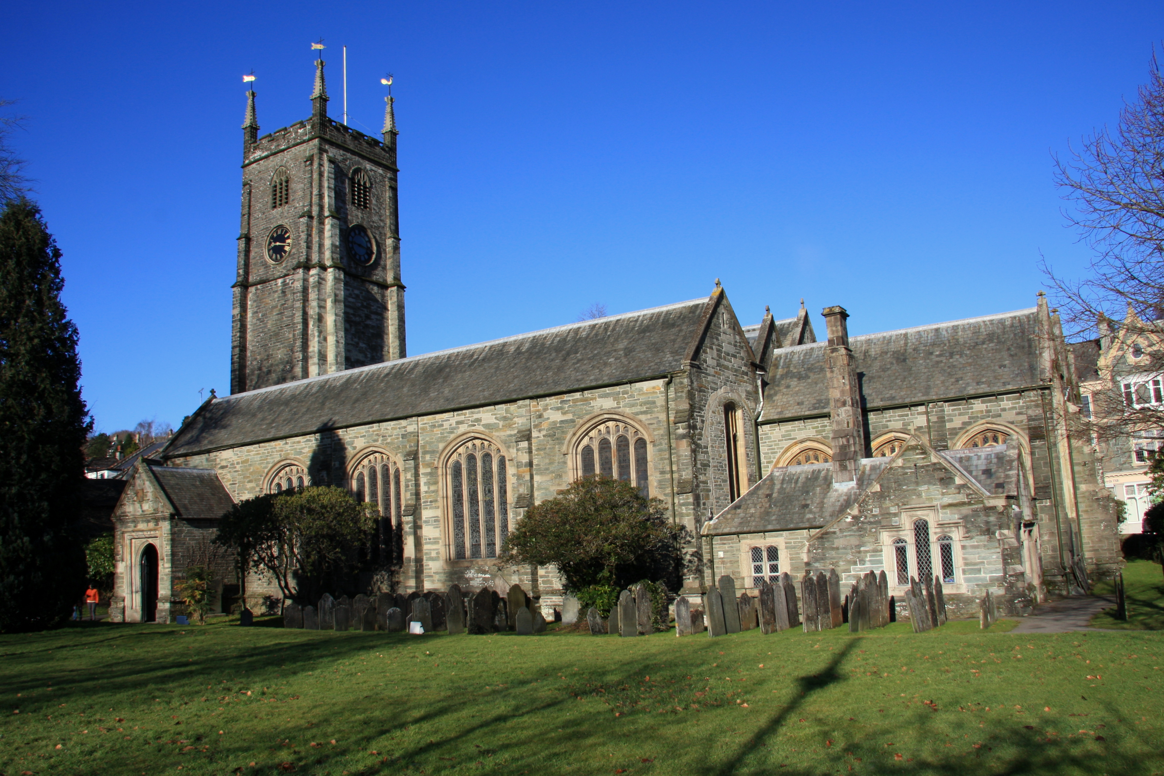 St Eustachius' parish church, Tavistock, West Devon, England, seen from the southeast